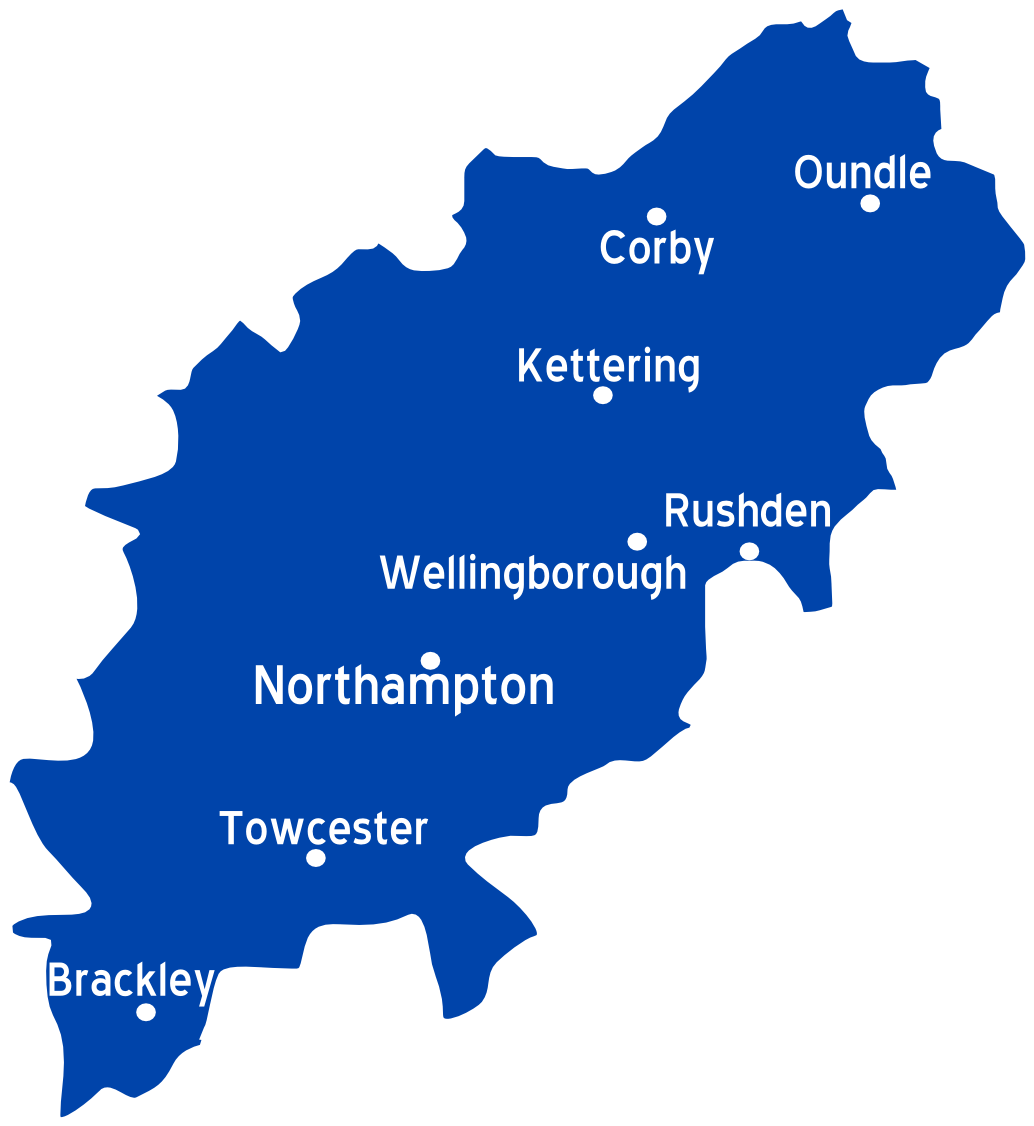 Map of Northamptonshire Source: :Image:UK map.svg map: United Kingdom Map of: United Kingdom